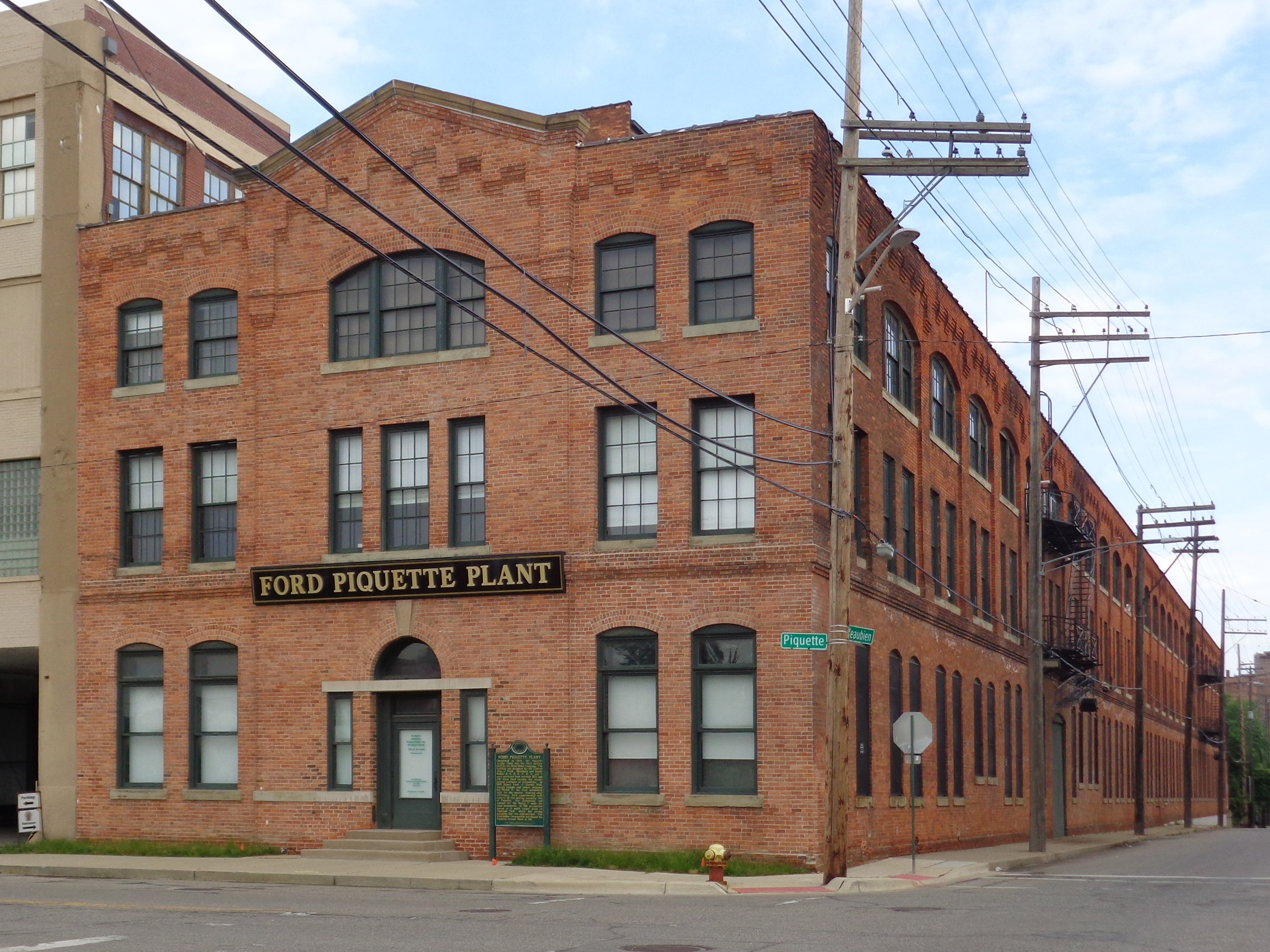 The front exterior of the Ford Piquette Avenue Plant at 461 Piquette Street, Detroit, Michigan. Built in 1904, this building was the second home of the Ford Motor Company (and the oldest still standing), and was where the first Ford Model Ts were produced. Now a museum, it is the oldest, purpose-built car factory building in the world open to the public. The building's façade was fully restored and revealed to the public on September 27, 2008, the 100th anniversary of the first Ford Model T to roll out of the plant.